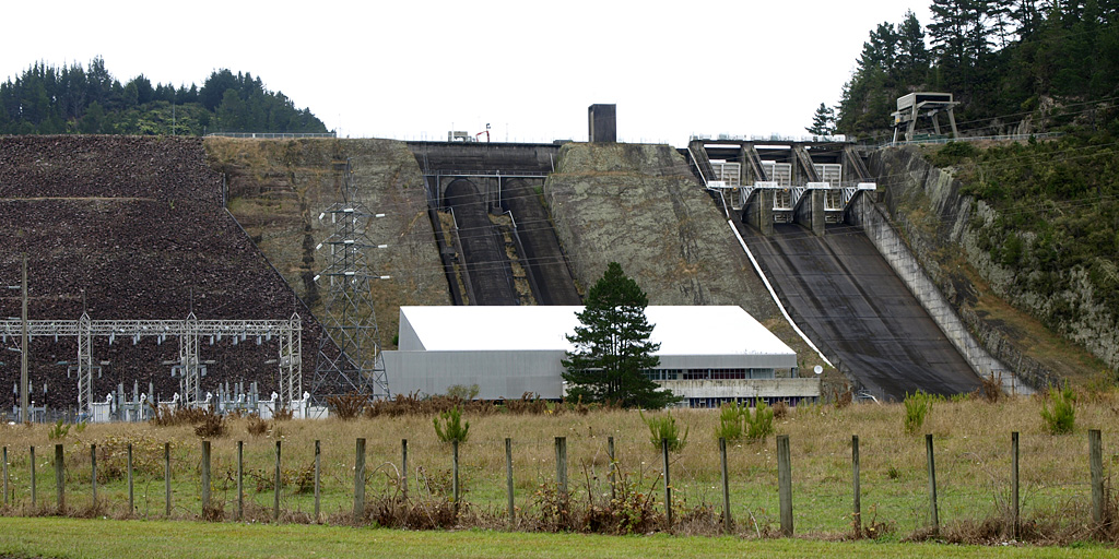 Lake Matahina (dam with power station), Region of Bay of Plenty, New Zealand